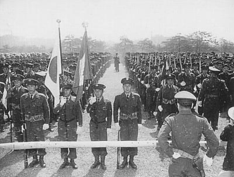 NPR personnel